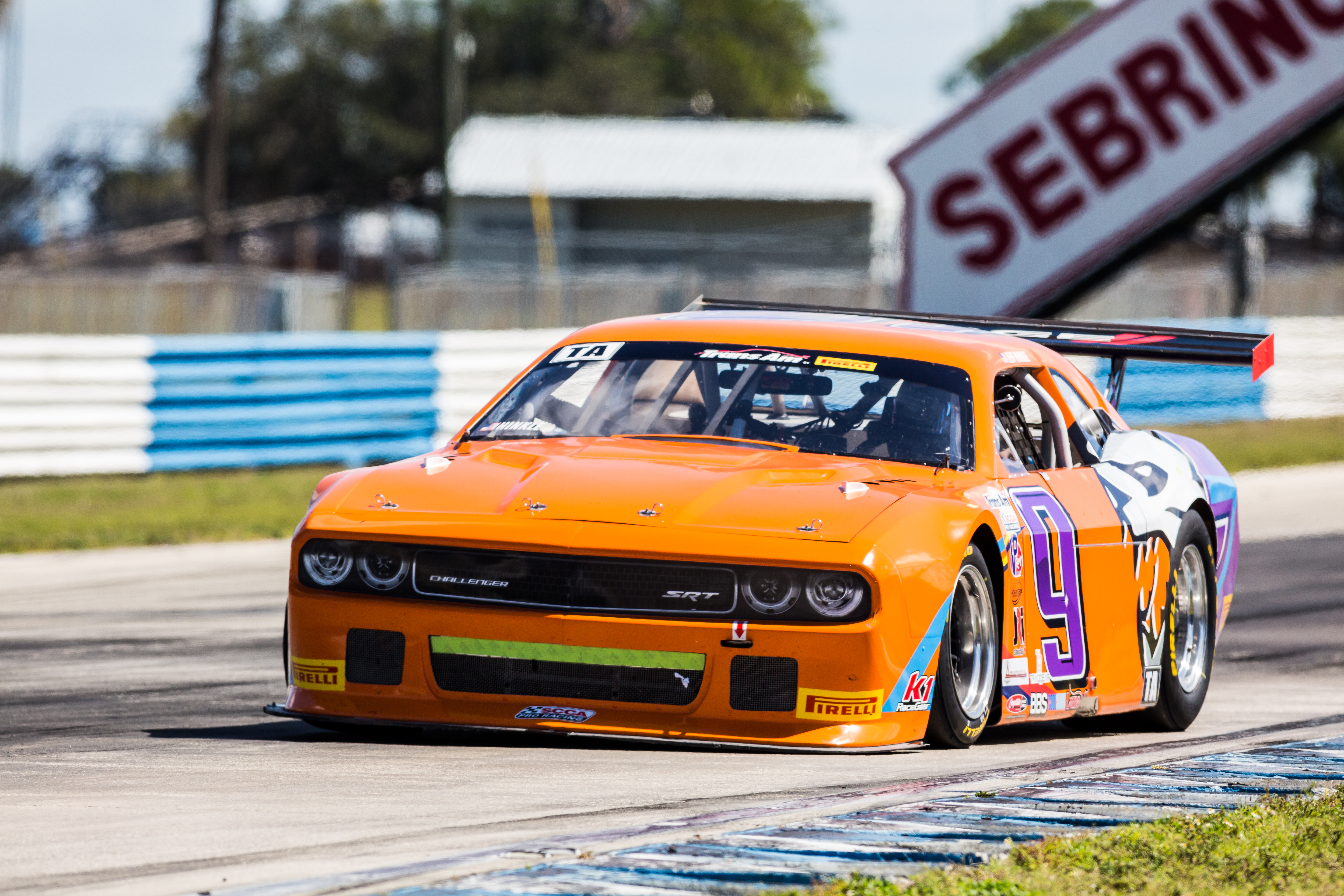 Jeff Hinkle racing the Challenger at Sebring in the TA class of TransAm